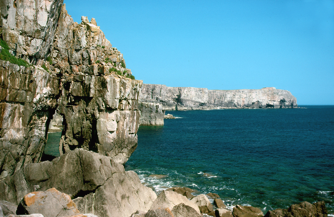 Coastel view at St Govan's Head, Pembrokeshire, Wales